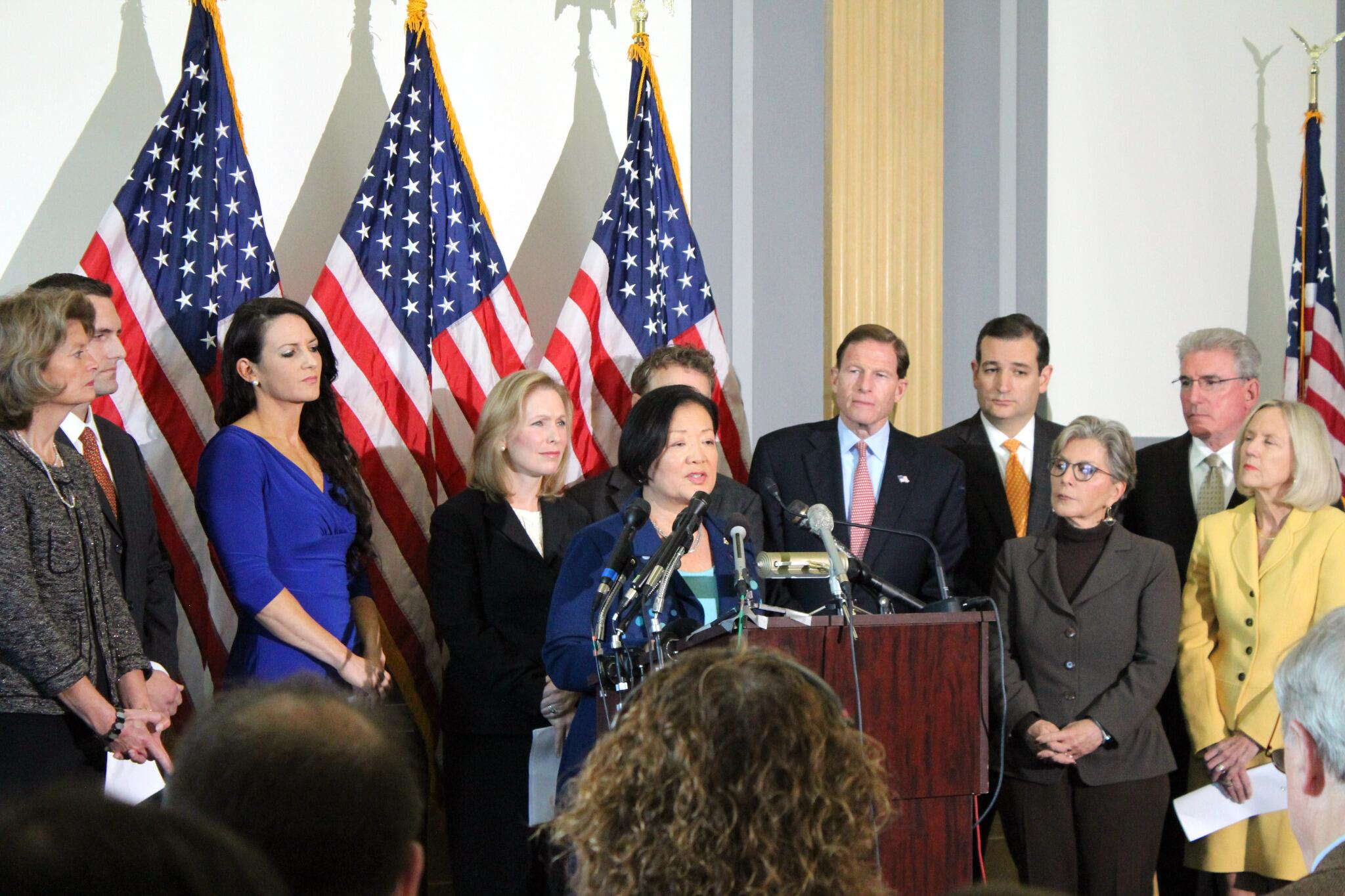 Safety of our men & women in uniform is not a partisan issue. Encouraged to see growing support to #passMJIA